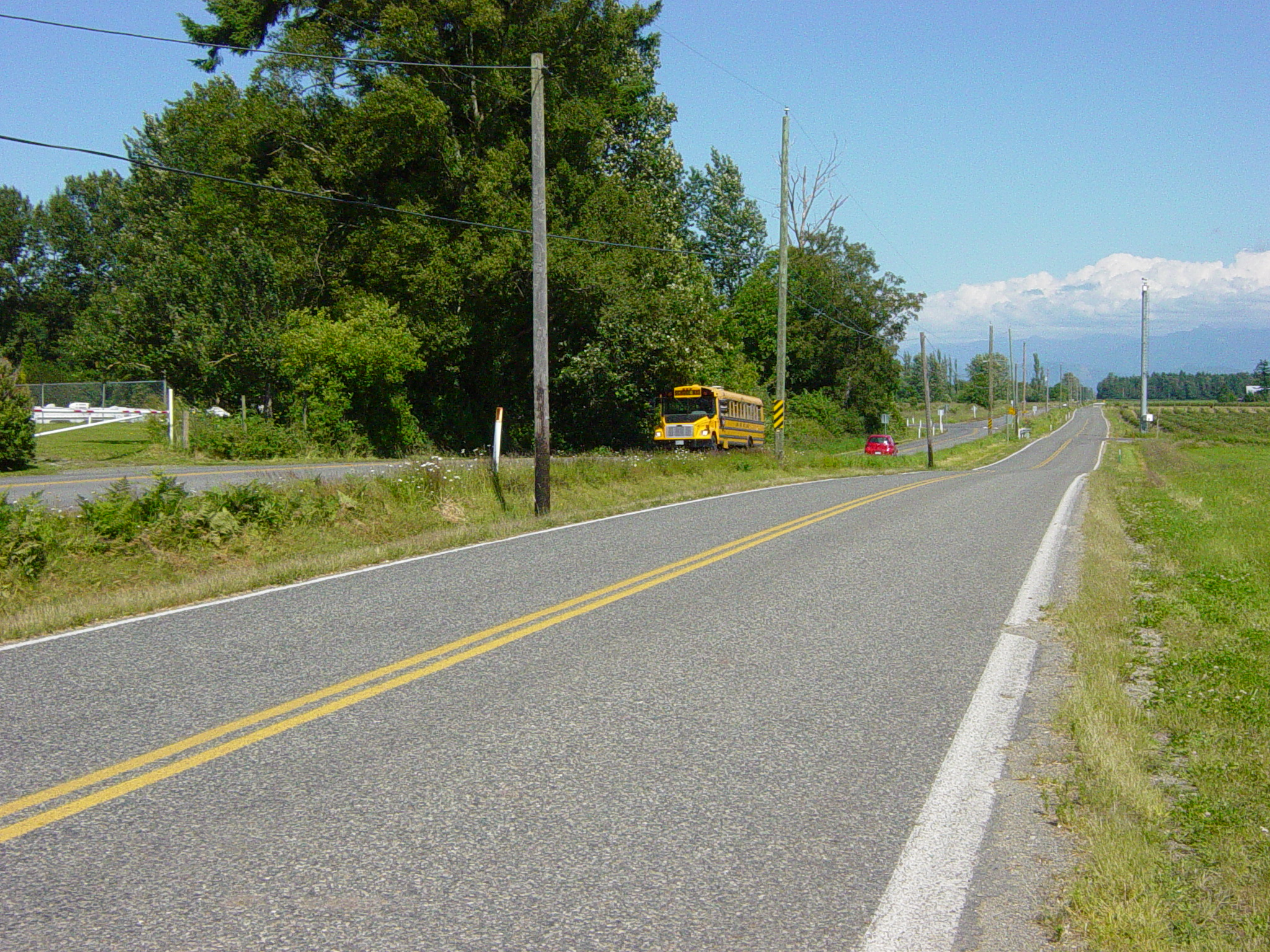 A ditch between parallel roads separates the boundary between Canada and the USA. Taken a few miles North of Lynden, Washington and just South of Aldergrove, British Columbia. On the right is the microwave tower used by Homeland Security in the USA to monitor traffic across the border.